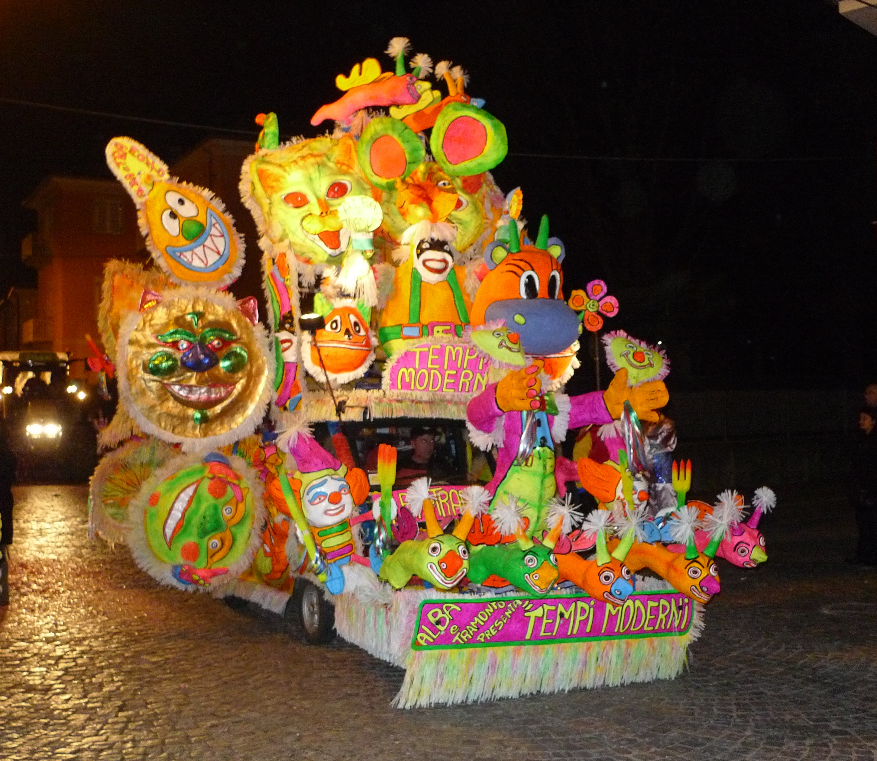 Banchette Carnival, Northern Italy